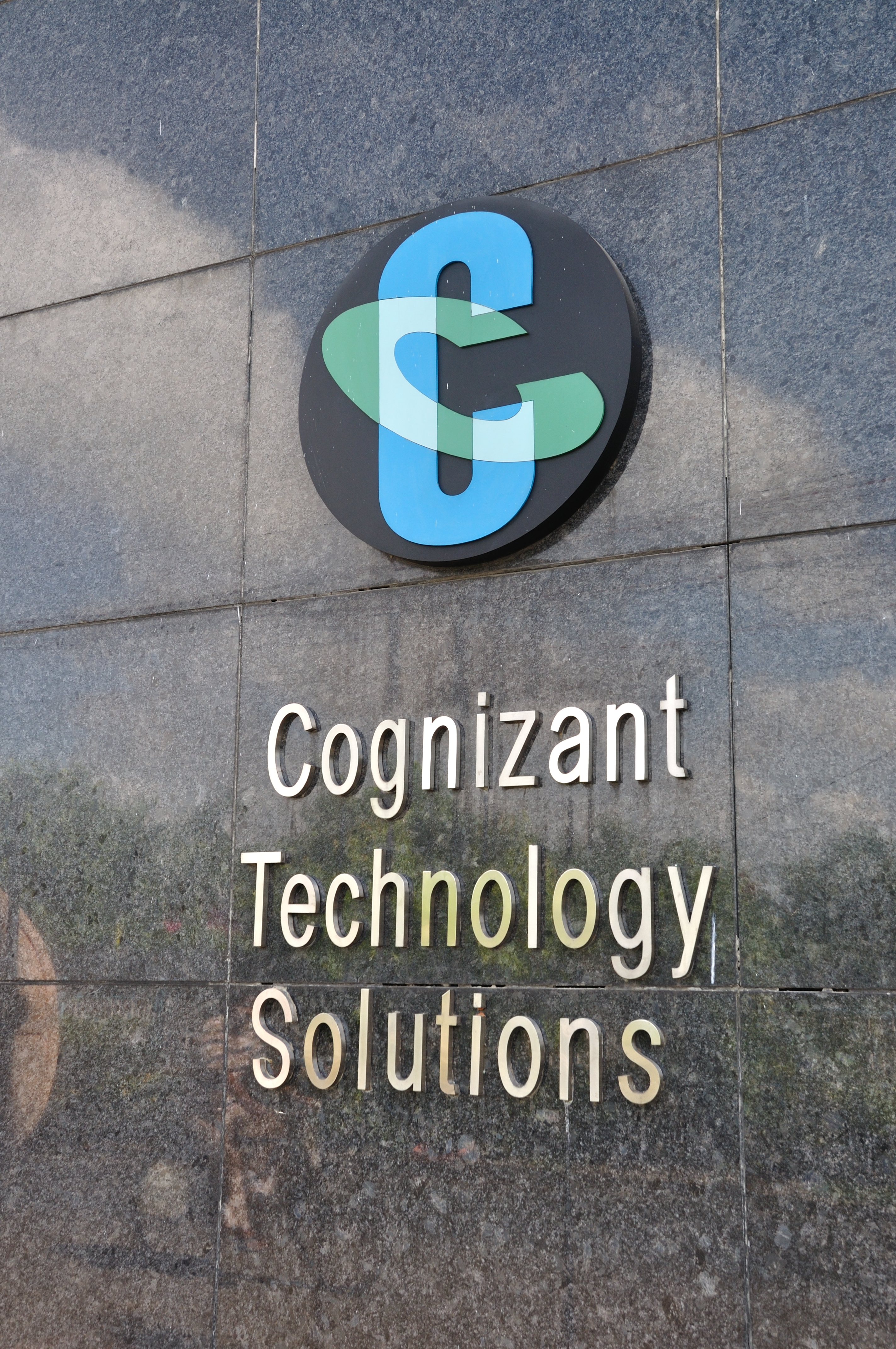 Sector V of the Salt Lake City or Bidhan Nagar, Kolkata